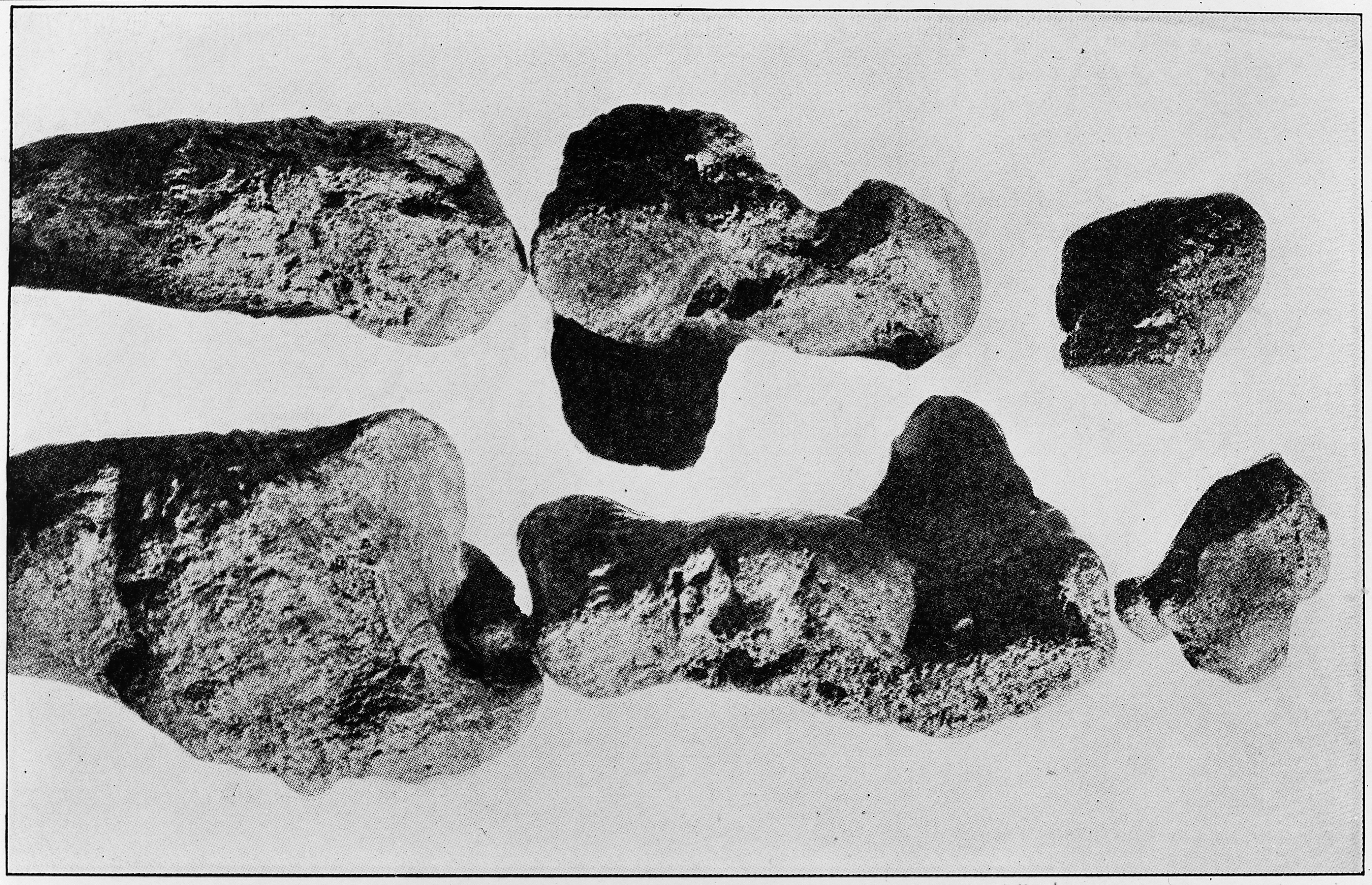 Eocene Ostemalacia: lower ends of the Tibia and Fibula with Tarsal bones of Limnocyon potens etc. General Collections Keywords: eocene ostemalacia; prehistoric archaeology; Paleopathology; Moodie, Roy Lee